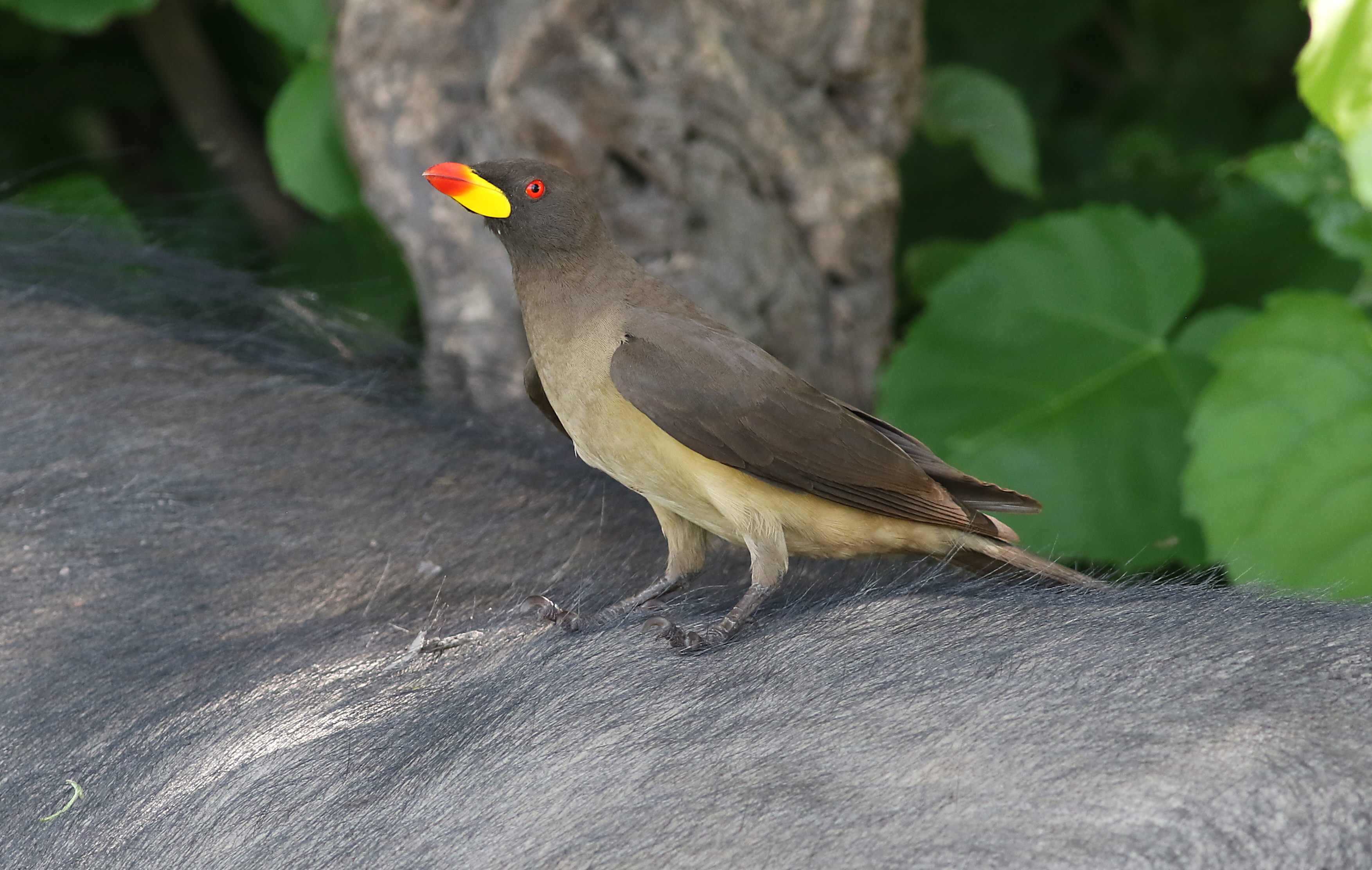 Yellow-billed oxpecker, Buphagus africanus, on Cape buffalo in Chobe National Park, Botswana.